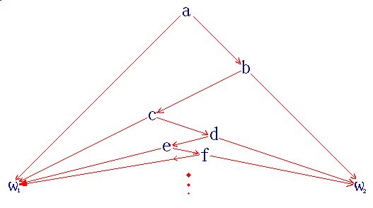 Shows an infinite non-cyclic abstract rewrite system that is locally confluent, but not globally confluent. (By Newman's lemma, it is necessarily non-terminating.)